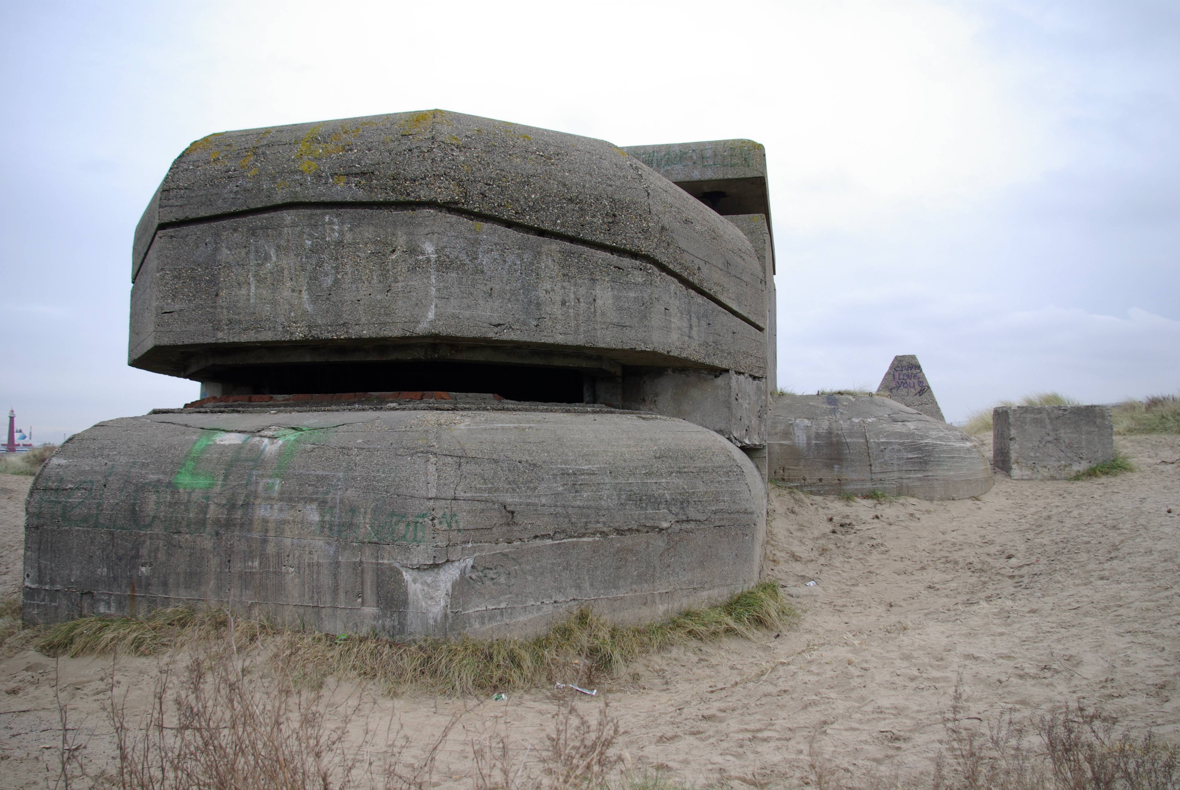 Atlantic Wall, IJmuiden, M.K.B. Heerenduin (Coastal Battery Heerenduin), W.N. 81 (Widerstandsnest 81), fire control post, type M 178